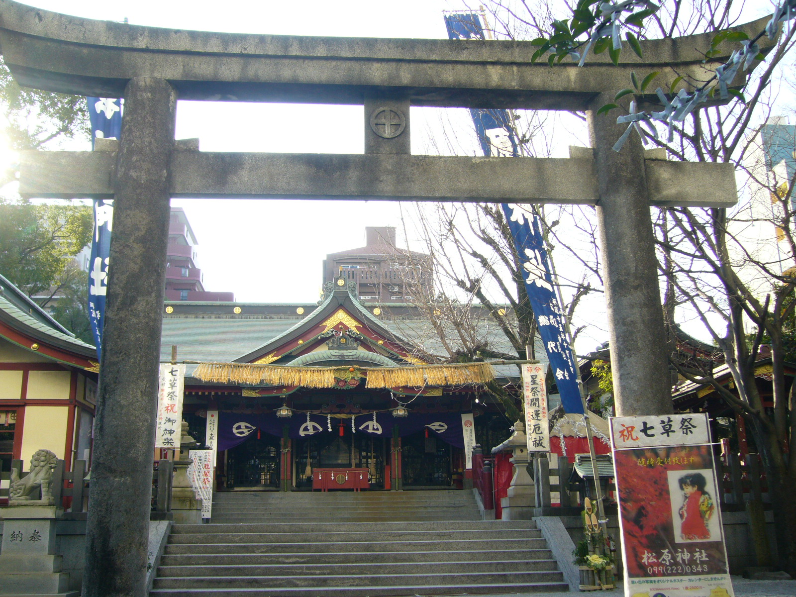 matsubara shinto shrine in kagoshima